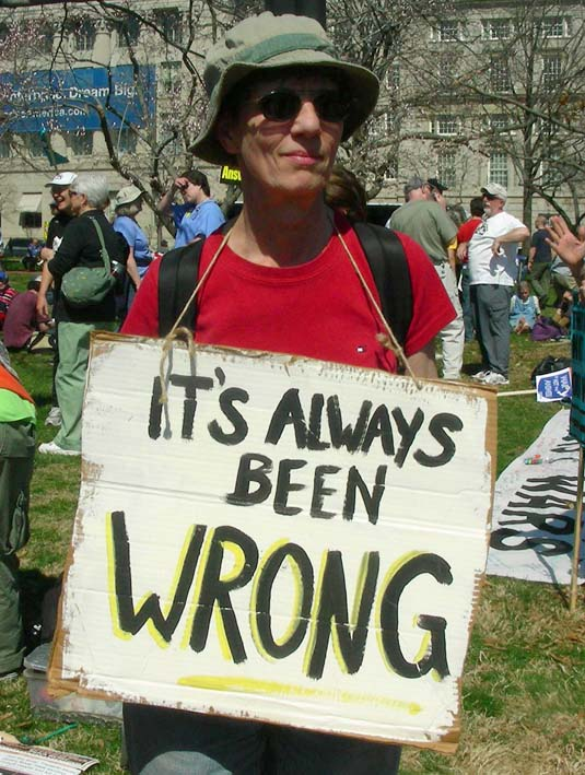 Protest holds sign at March 20, 2010 anti-war protest